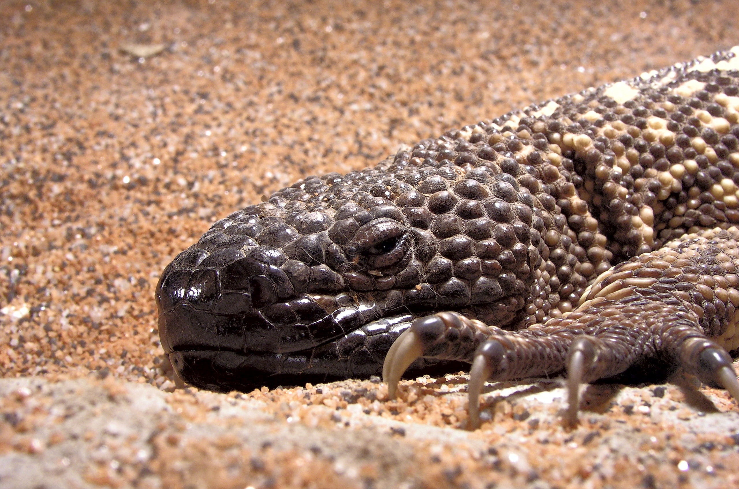 Mexican Beaded Lizard from the local reptile house.